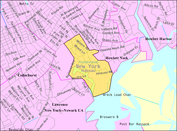 U.S. Census 2000 reference map for Woodsburgh, New York